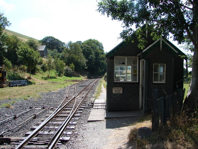 Bryn-glas signal cabin, Pandy, Talyllyn Railway